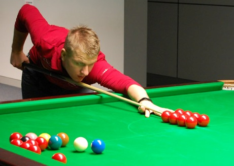 Marcin Nitschke. Practice in World Snooker Academy in Sheffield